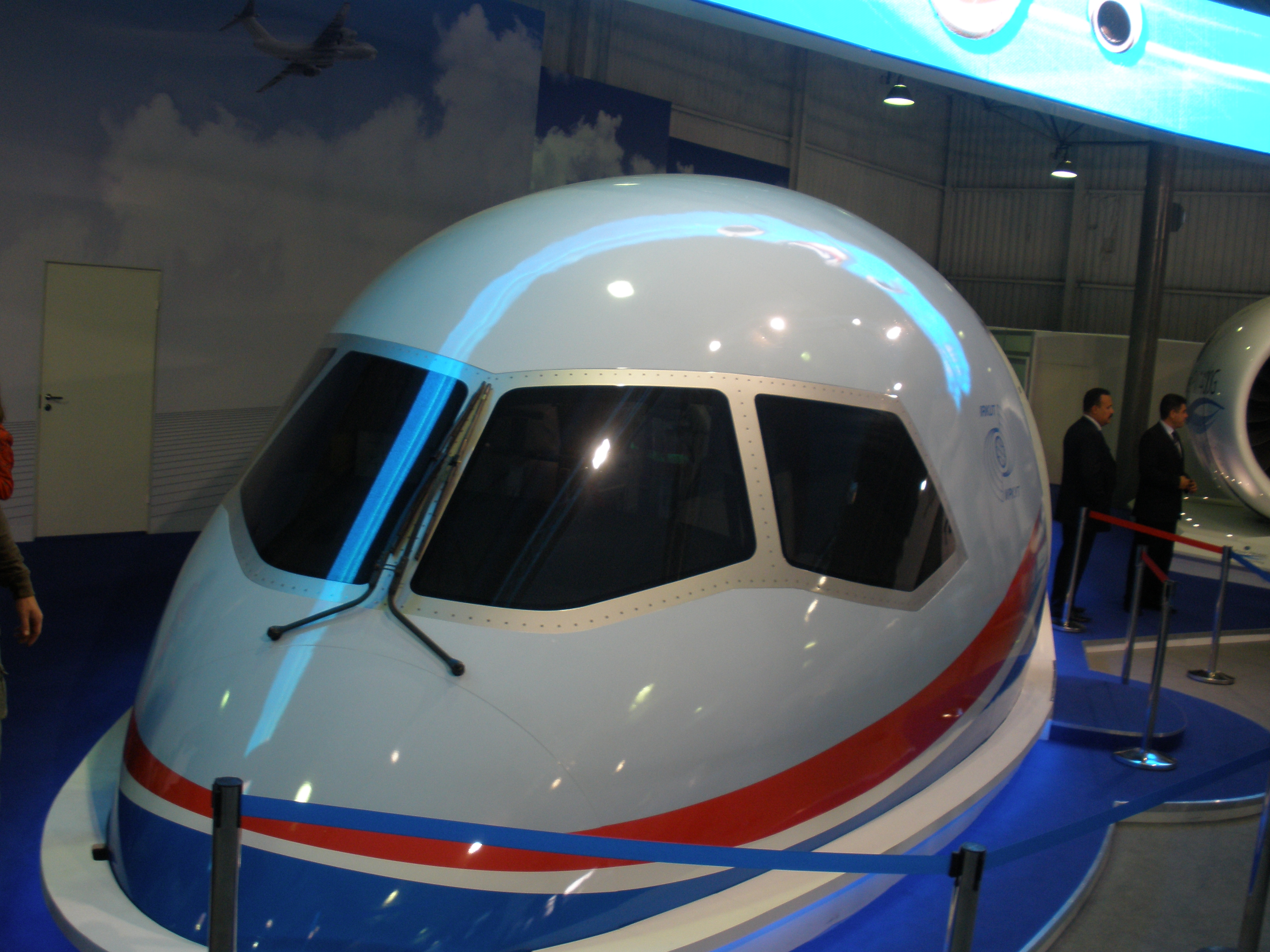 A mockup of MS-21 jet airliner's cabin at MAKS-2011 airshow